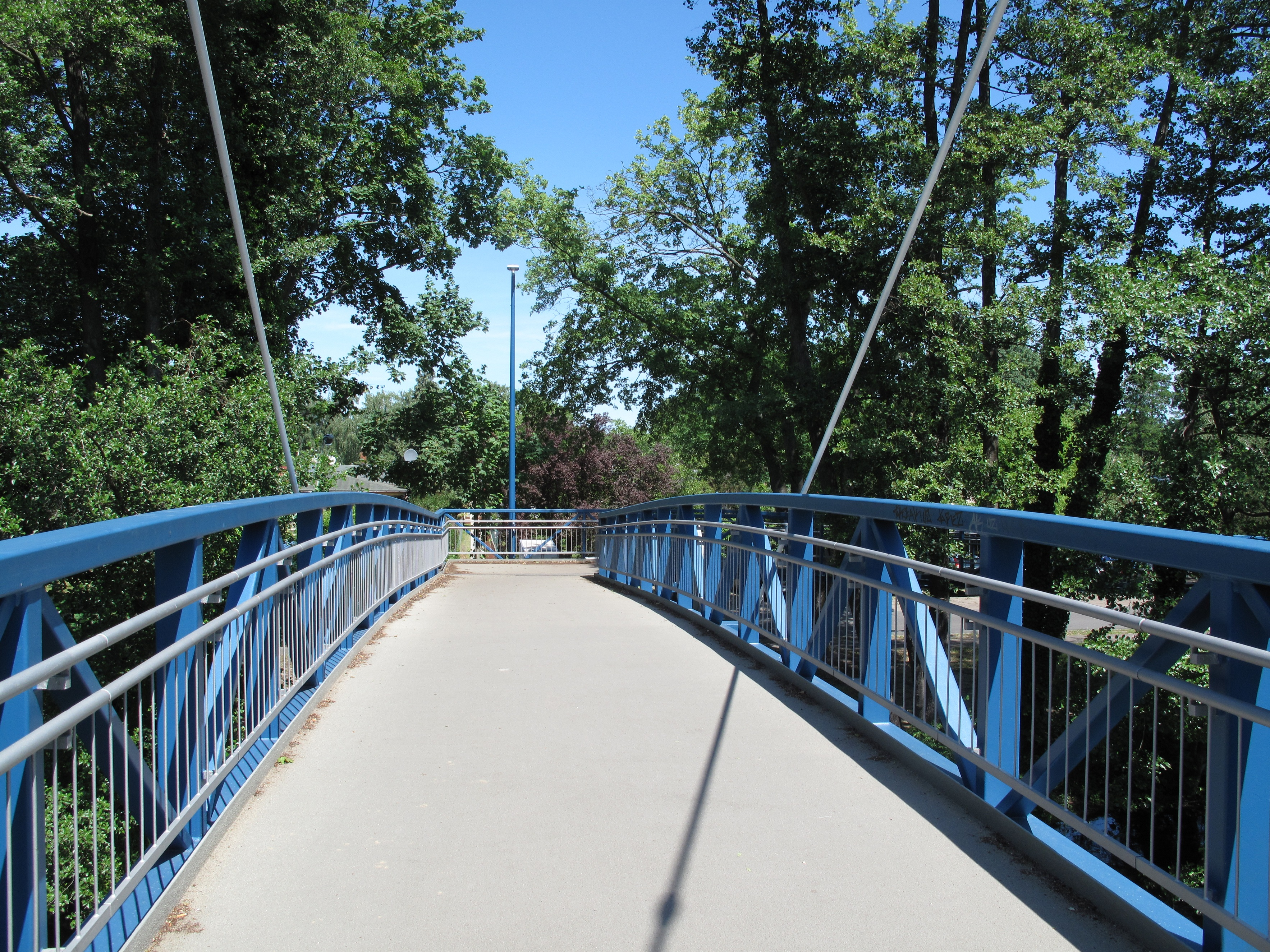 The Aalemannkanalbrücke (Aalemann canal bridge) spans the Aalemannkanal and is situated in Berlin, Borough Spandau, locality Hakenfelde. The foot- and bikeway bridge is part of the Berlin-Copenhagen Cycle Route and of the Havel Cycle Route (german: Havelradweg). The barrier-free cable-stayed bridge was opened in 2010 and has a length of 68 meters. The construction as a whole, inclusive the ramps, has a length of 157 meters.